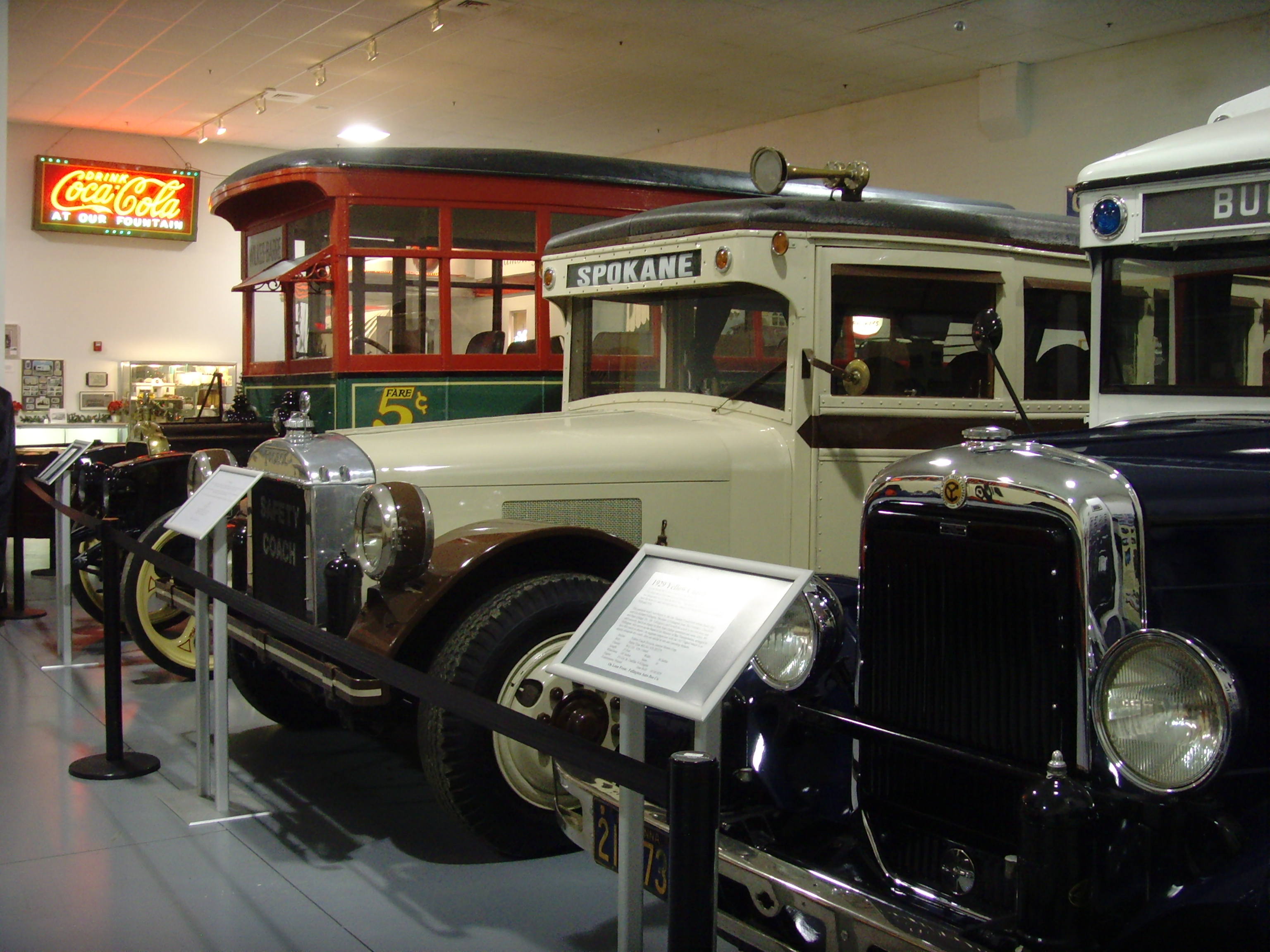 0168 Hershey - Antique Automobile Club of America Museum - Bus Museum